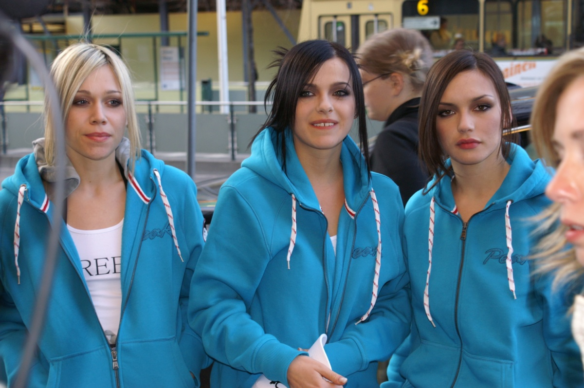 Russian Girlgroup Serebro during the Eurovision Song Contest Week in Helsinki (left to right: Marina Lizorkina, Elena Temnikova and Olga Seryabkina).